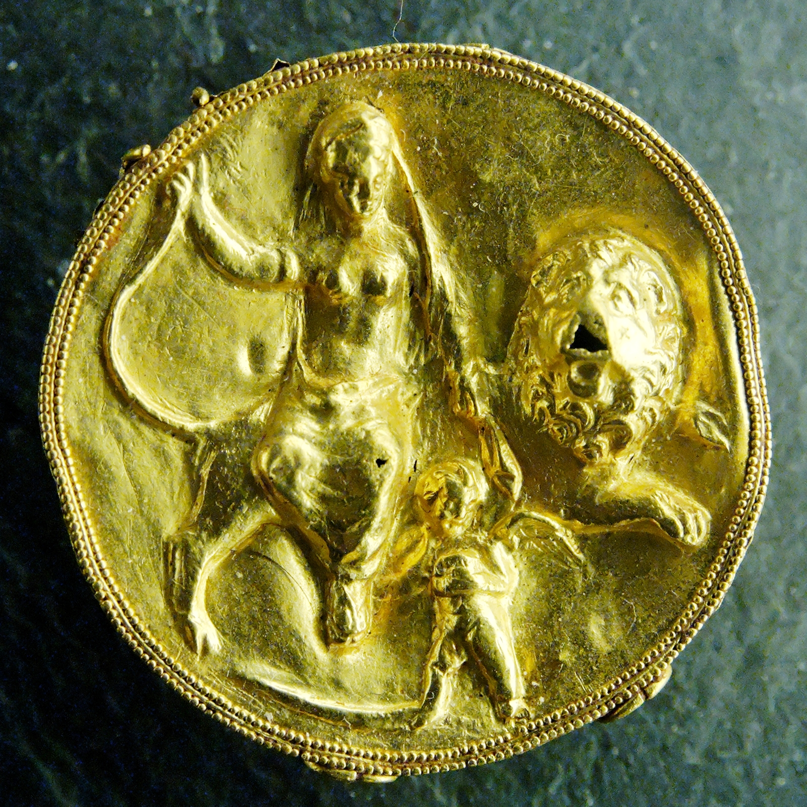 Medallion with Aphrodite sitting on a lion and Eros. Greek artwork, 3rd century BC. From Amrit in Syria.